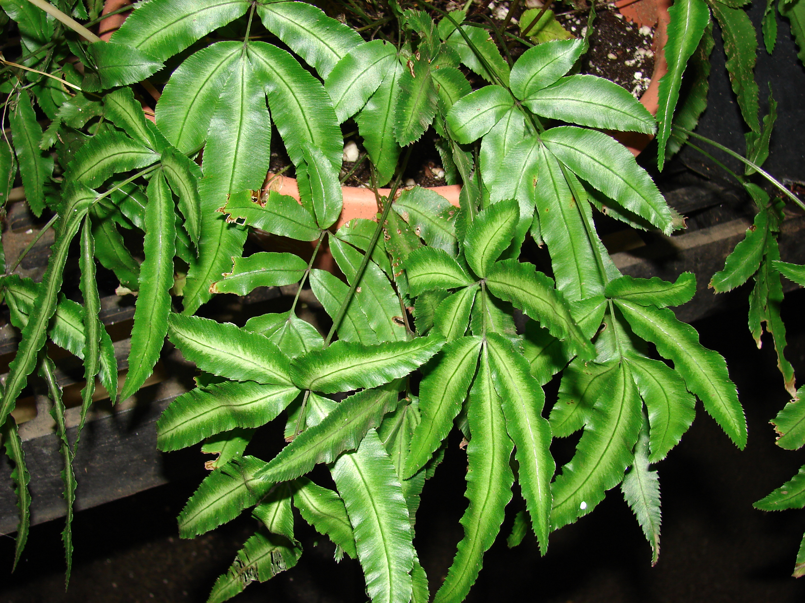 Pteris cretica (cv albo lineata habit). Location: Maui, Kula Ace Hardware and Nursery